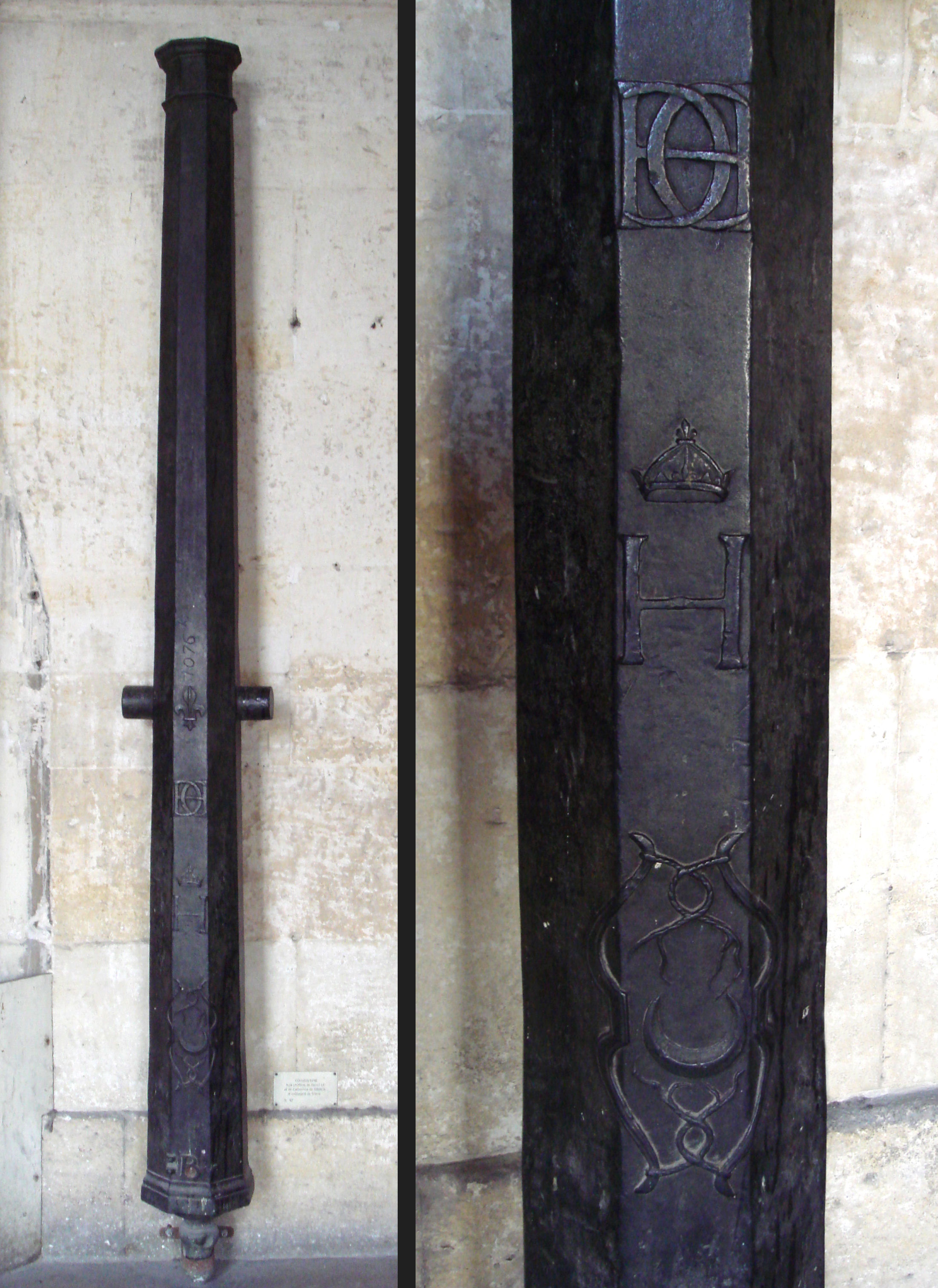 French_bastard_culverin_1548_with_arms_of_Henri_II_and_Catherine_de_Medicis_and_crescent_of_Diane_85mm_300cm_1076kg.